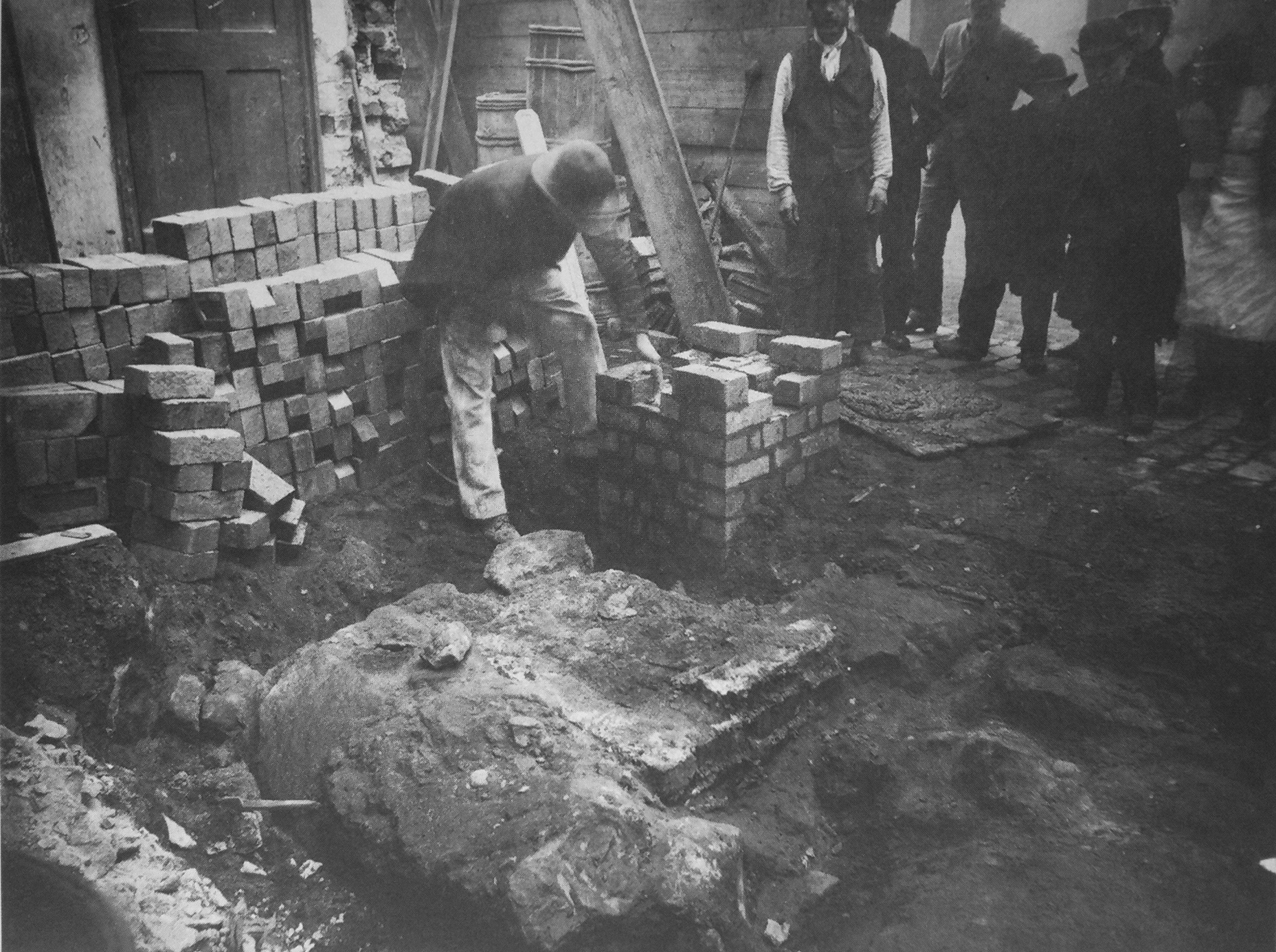 Nineteenth century photograph of the foundations of the Priory of St Thomas of Canterbury, Birmingham, exposed during building work in the Minories in the 1880s.